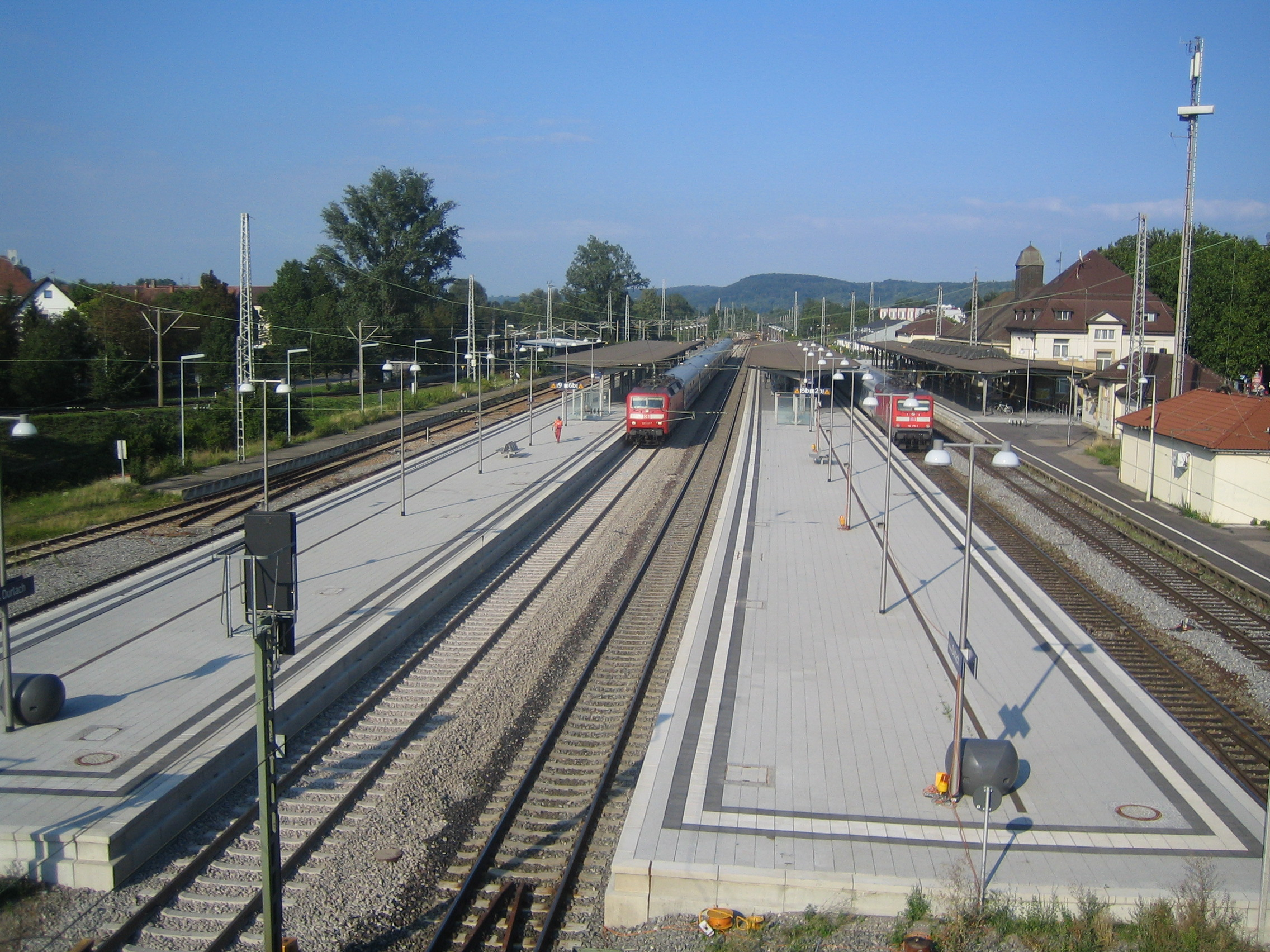 Railway station of the district of Durlach, in the city of Karlsruhe, Germany.